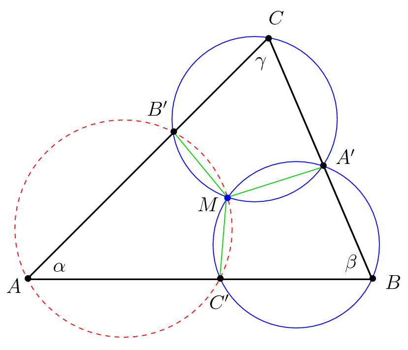 Miquel´s theorem: triangle, 3 circles